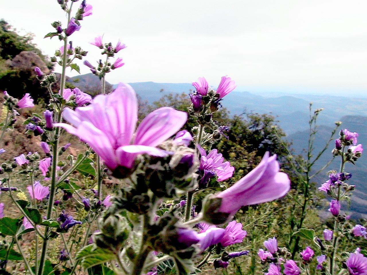 Malva sylvestris. In Camarasa (Noguera- Catalunya). To 790 m. altitude